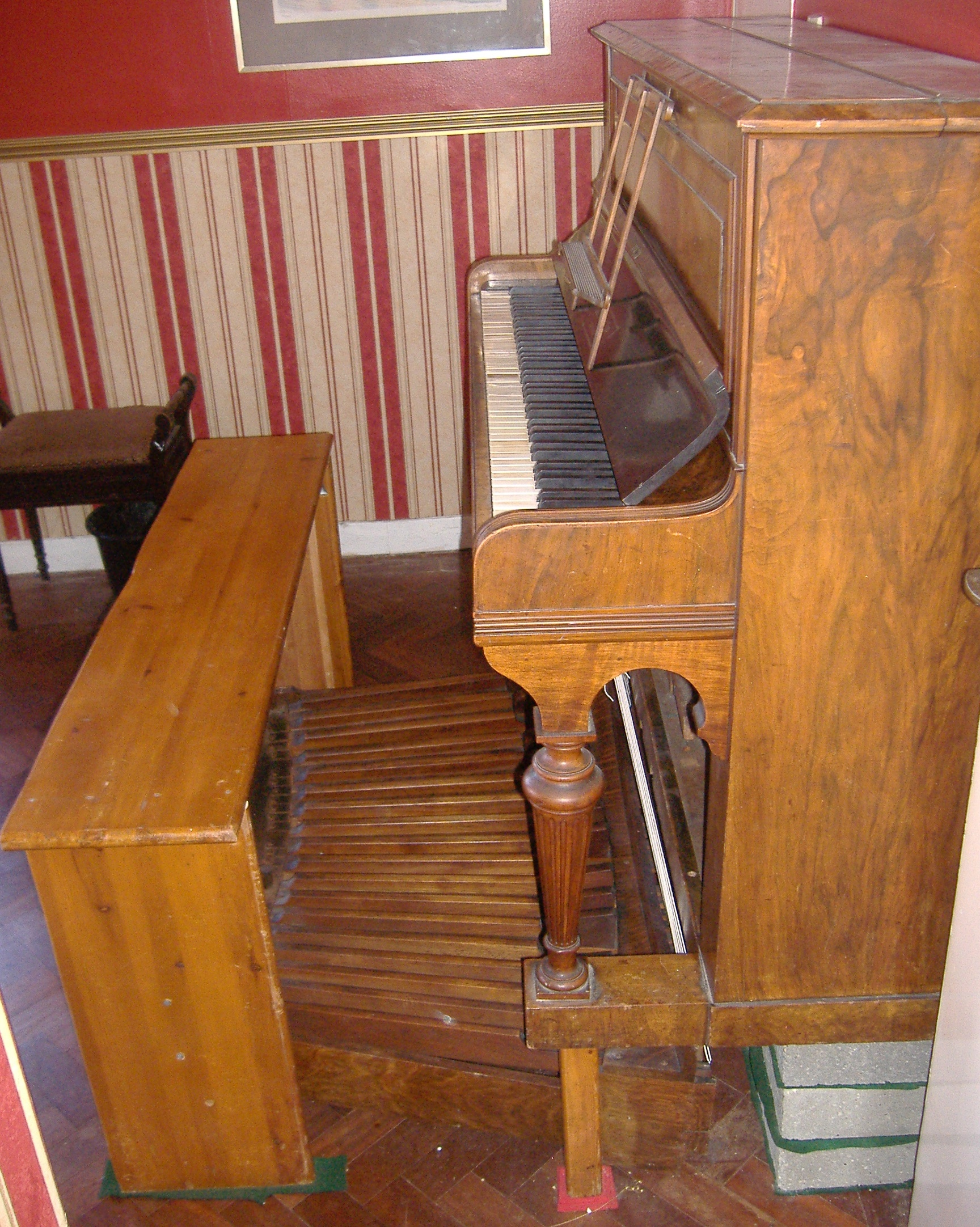 An upright piano with pedal board. The pedals are connected by string to the lower octaves of the piano keyboard, so the bass notes can be played with the feet, like on an organ.